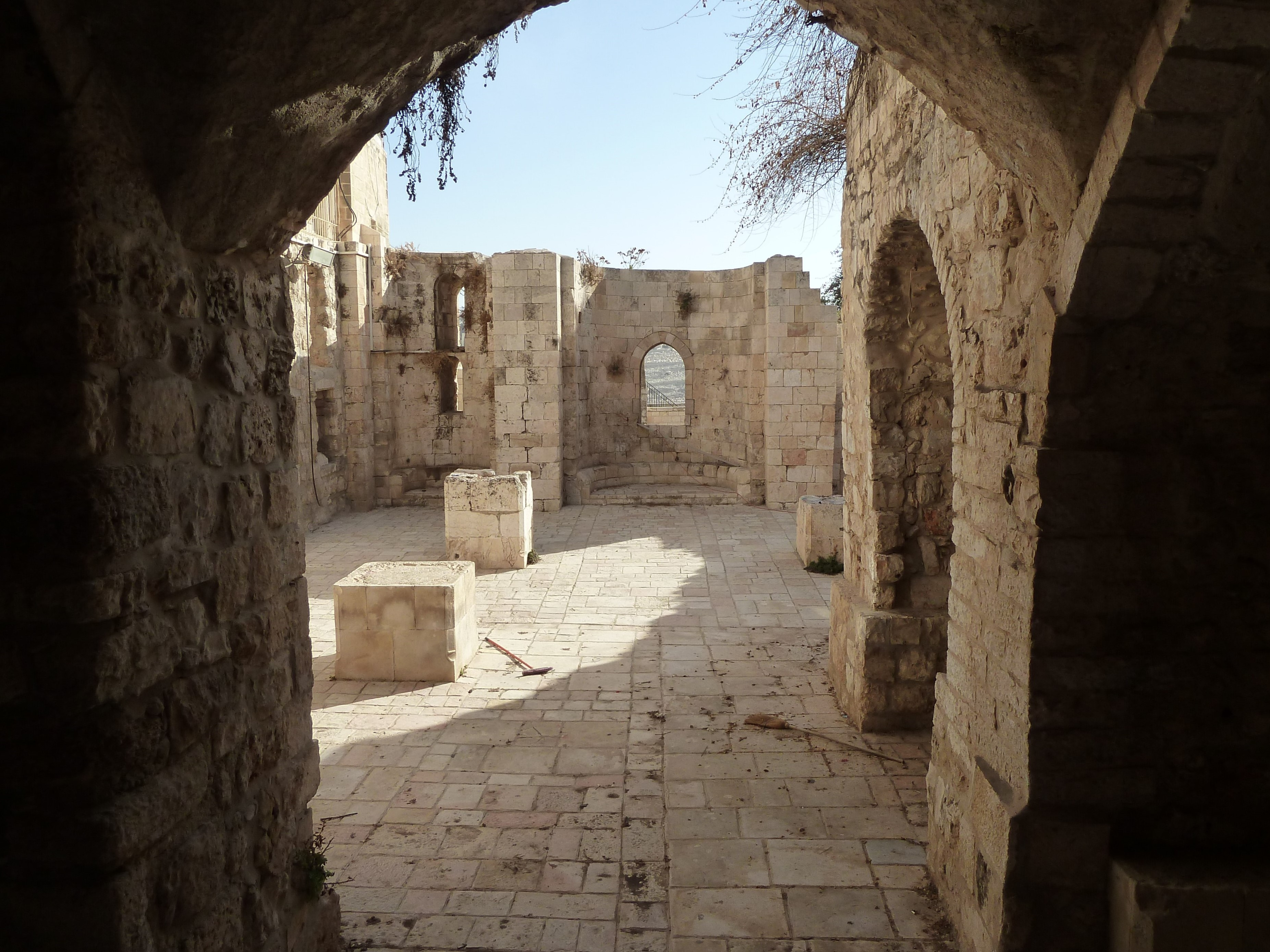 Old Jerusalem Remnants of St. Mary's church